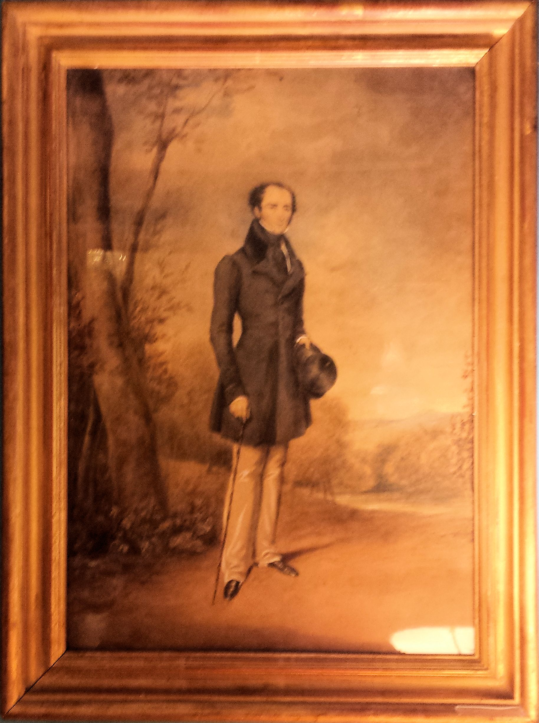 John William Lubbock, 3rd Baronet taking a stroll in the grounds of his country estate at High Elms